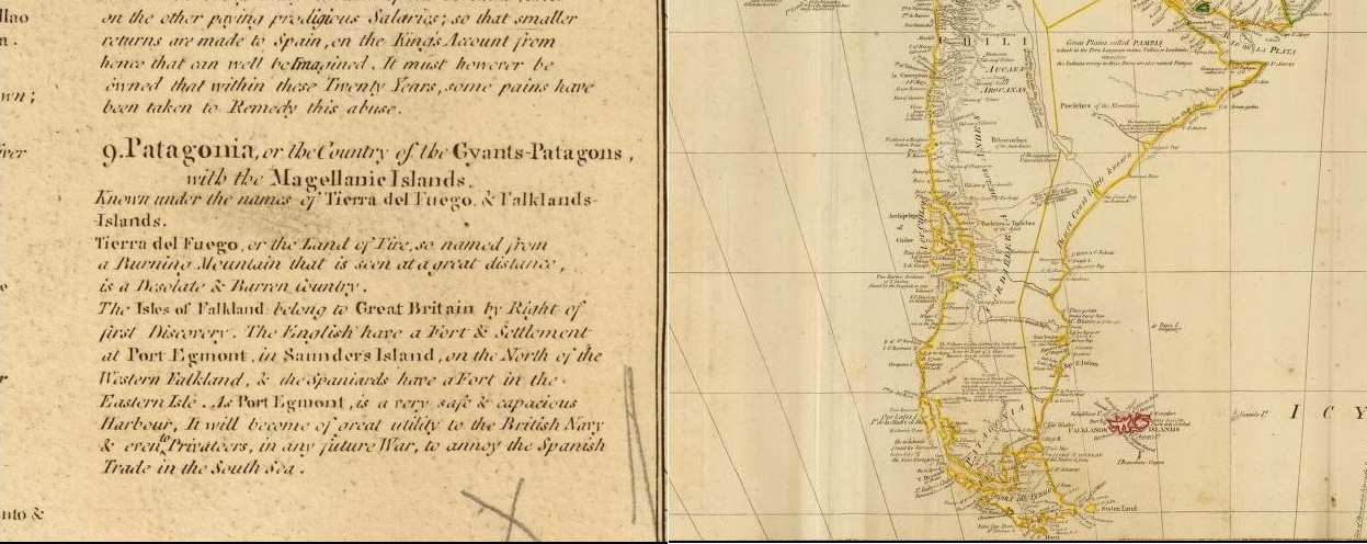 A map showing the Falkland Islands prior to 1794 with marginal notes describing the division of the Islands between British West Falkland and Spanish East Falkland.